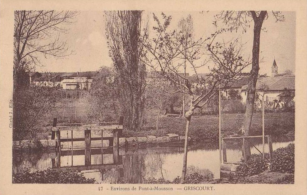 Old post card of Griscourt (Meurthe-et-Moselle ; France). Seen since the brook.